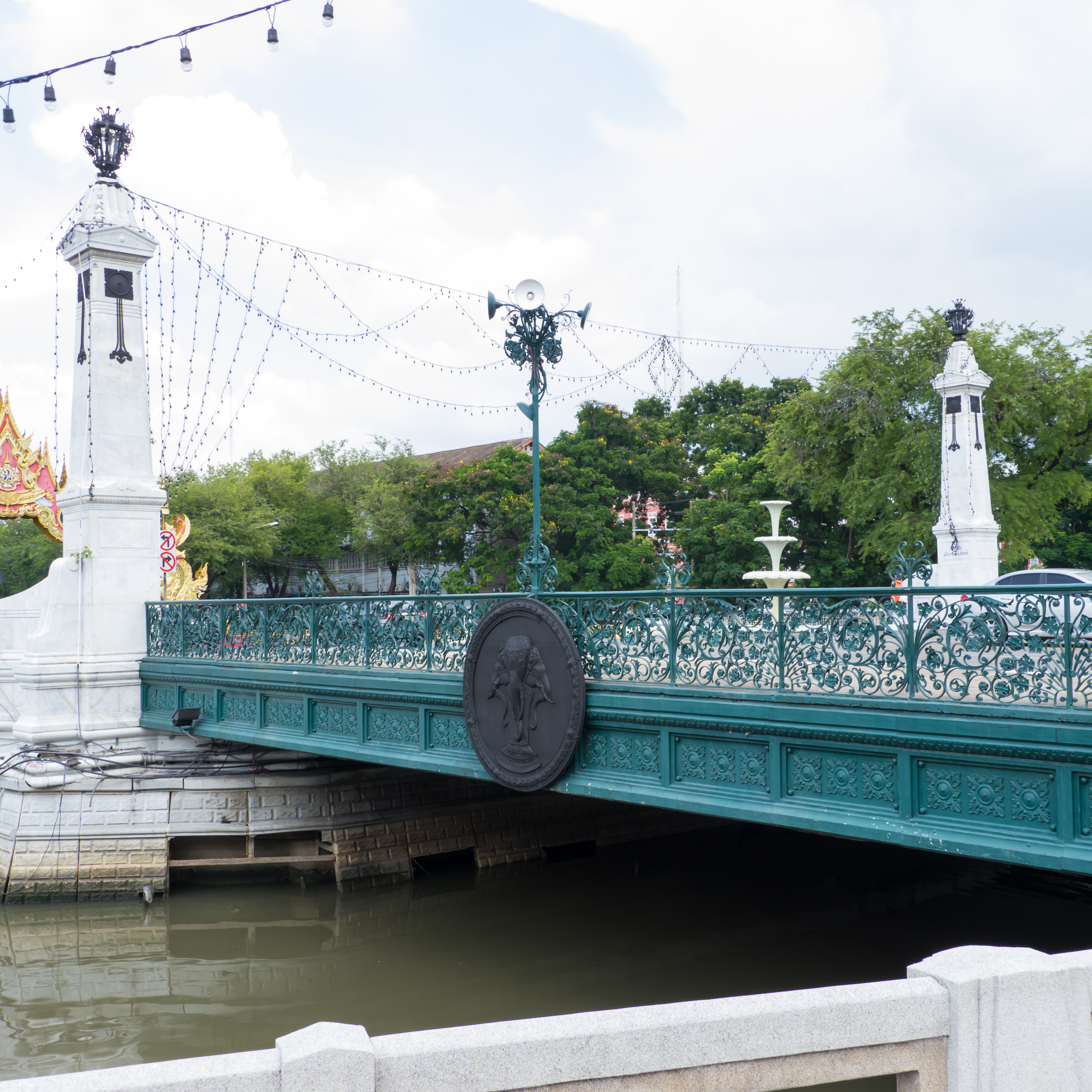 สะพานมัฆวานรังสรรค์